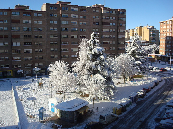 El barrio de San Juanillo con más de 15 centímetros de nieve